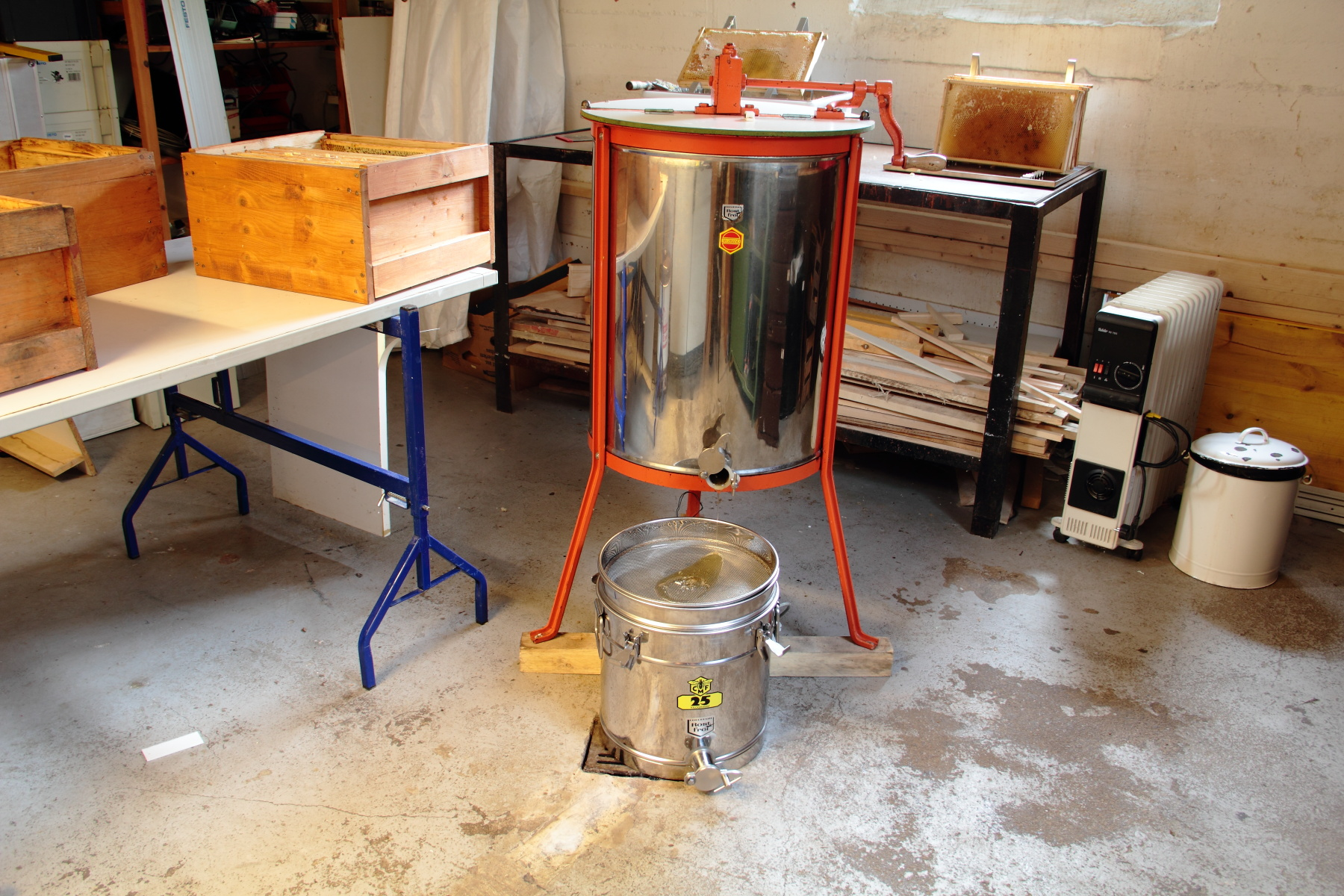 Tools for honey extracting